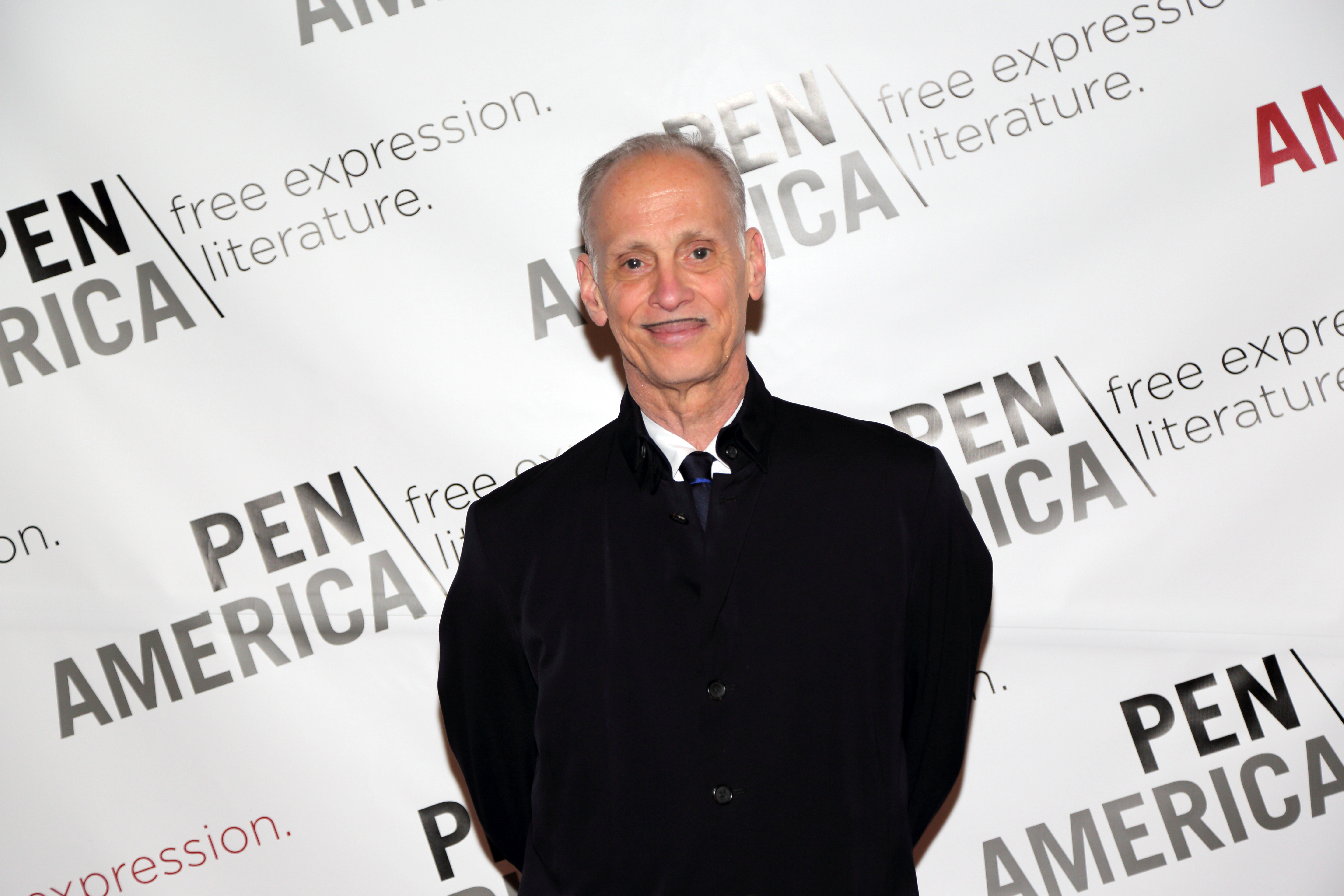 Waters at Pen America/Free Expression Literature, May 2014. © Ed Lederman/PEN American Center